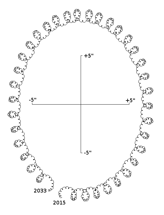 Earth's nutation from 1 January 2015 to 1 January 2033. As seen from the center of the Earth (i.e the difference in ecliptical longitude, Δψ, is multiplied with cos 66°34').